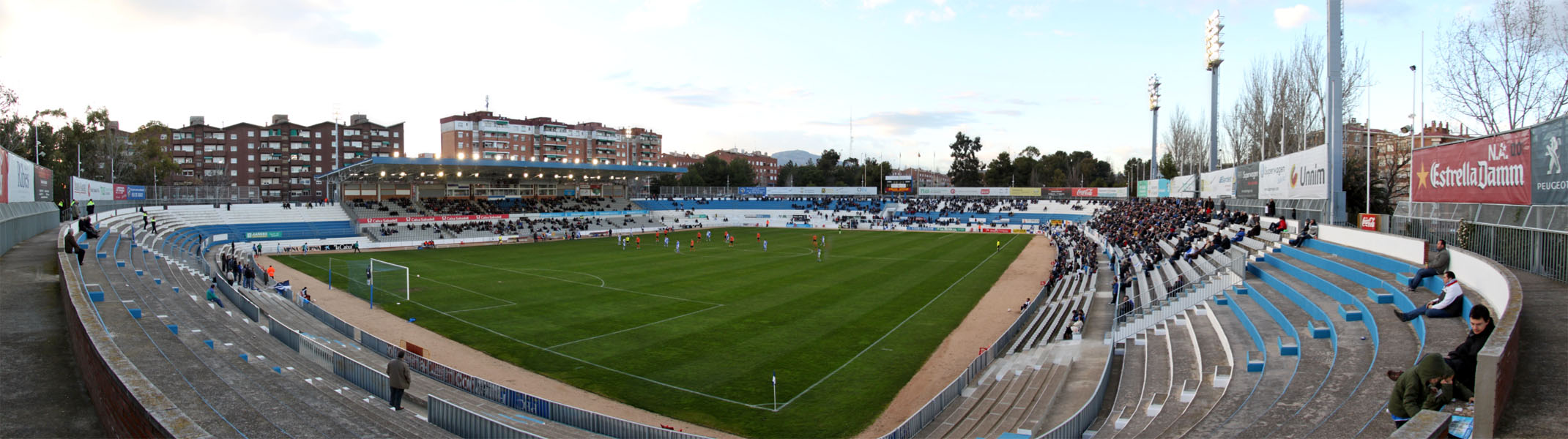 Estadi Nova Creu Alta on 27.2.2011, game CE Sabadell against CF Gandia